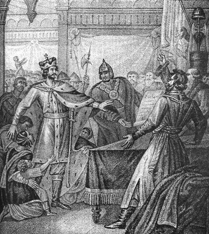 Yaroslav Yaroslavich in Novgorod